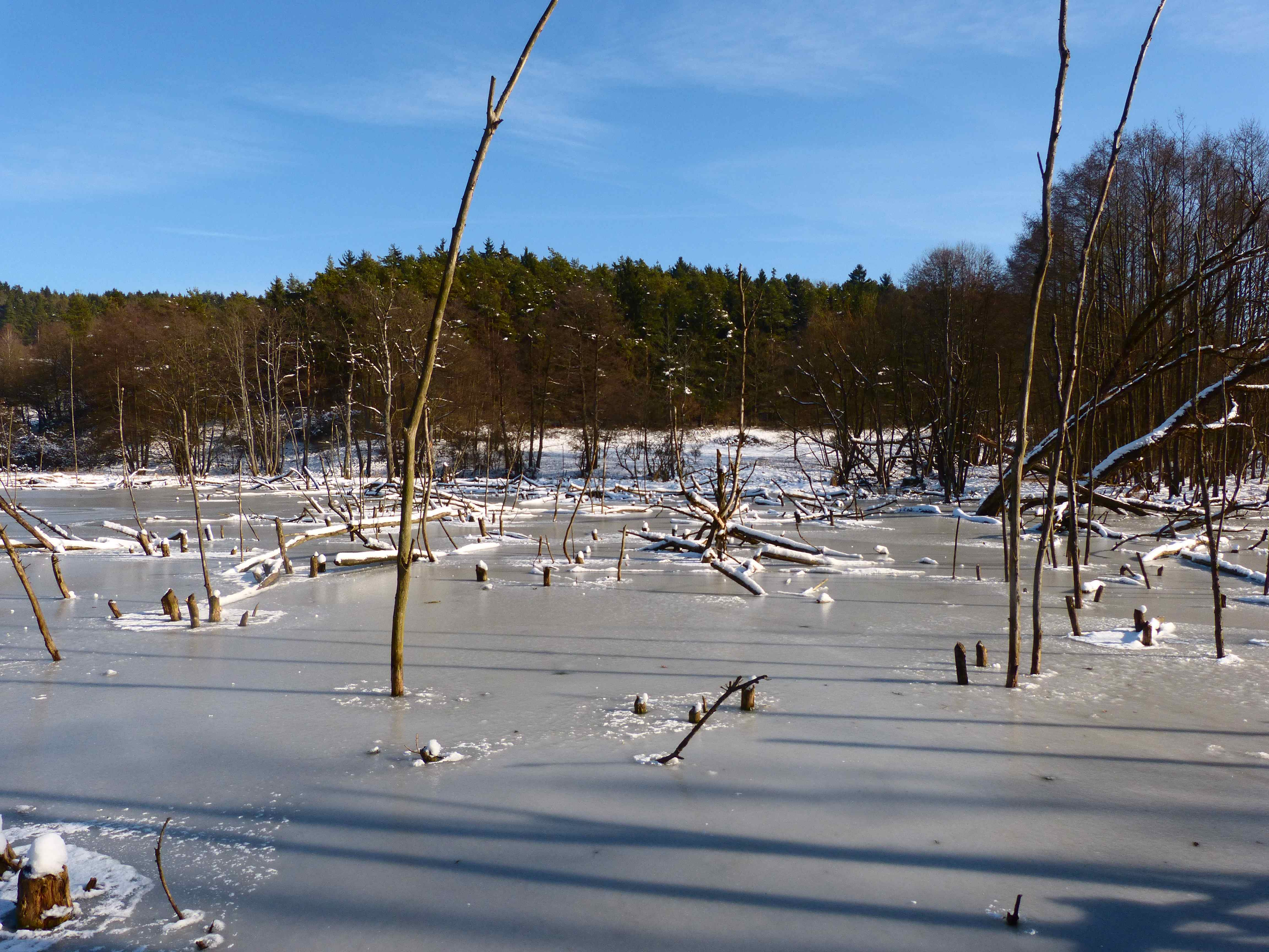 Landcape in Nature Reserve Grubenfelder Leonie (Germany)